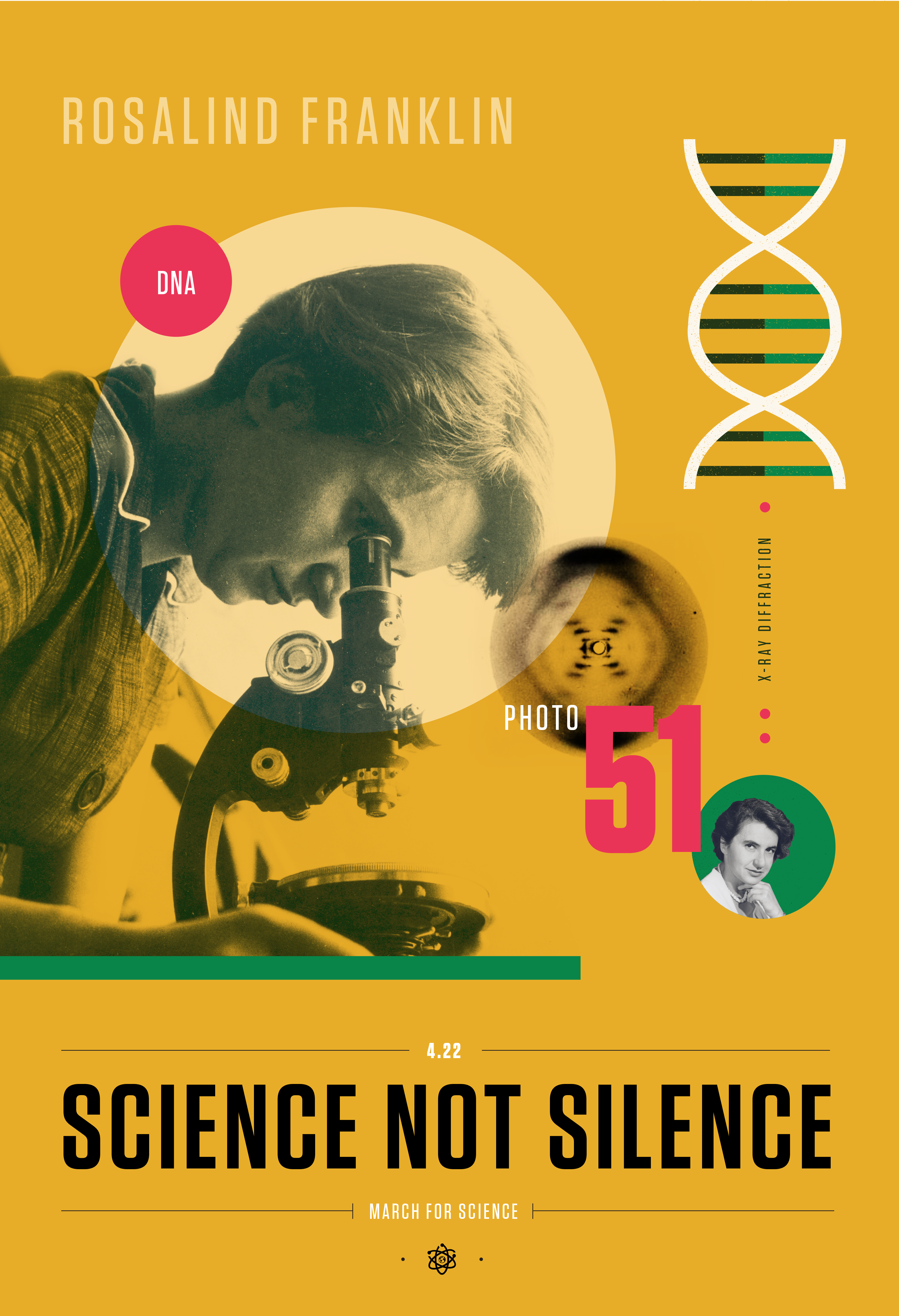 Rosalind Franklin is one of the women featured in Beyond Curie - a portrait series of women in STEM. She took a picture of DNA, Photo 51, that changed our understanding of the structure of DNA. Snubbed for the Nobel Prize in 1962, Her story is one of the most well-known and shameful instances of a researcher being robbed of credit. Let's celebrate her now.